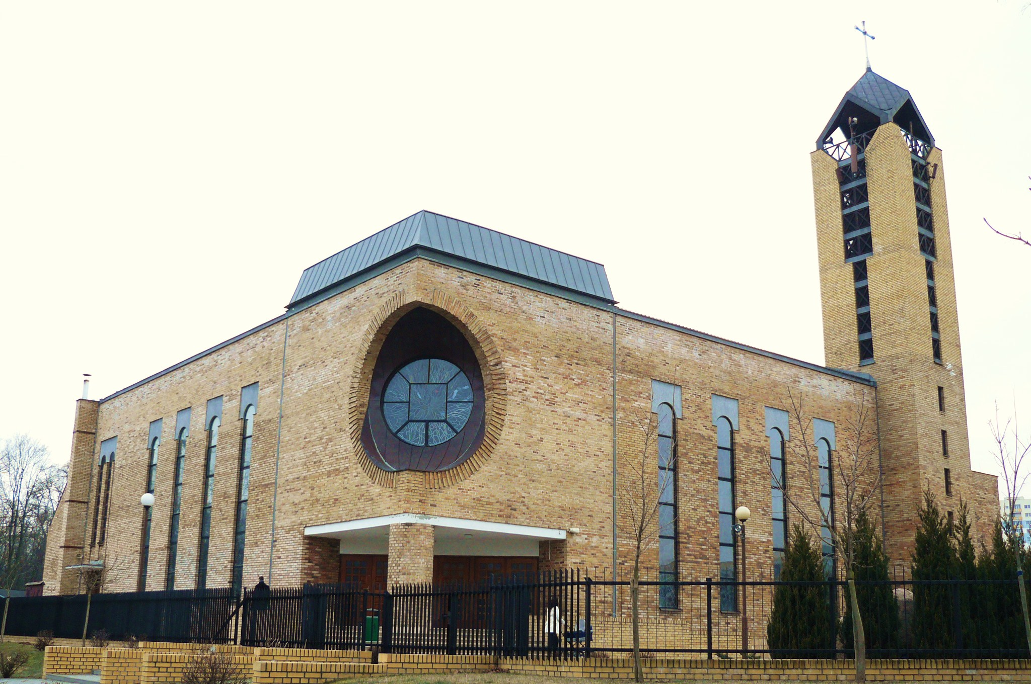 Church of st.Lukas Ev. Poznan - Rusa District.